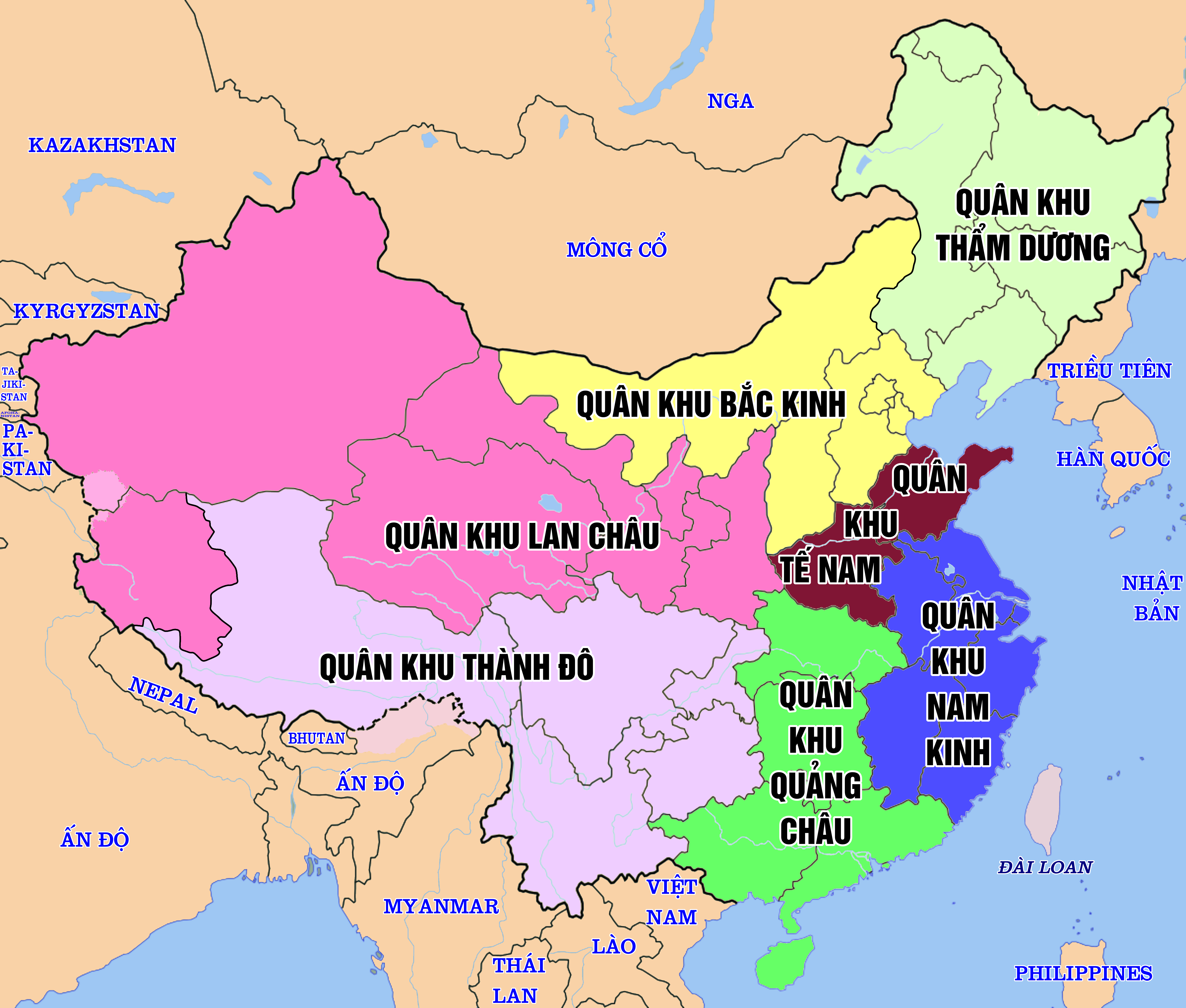 China’s Military Regions